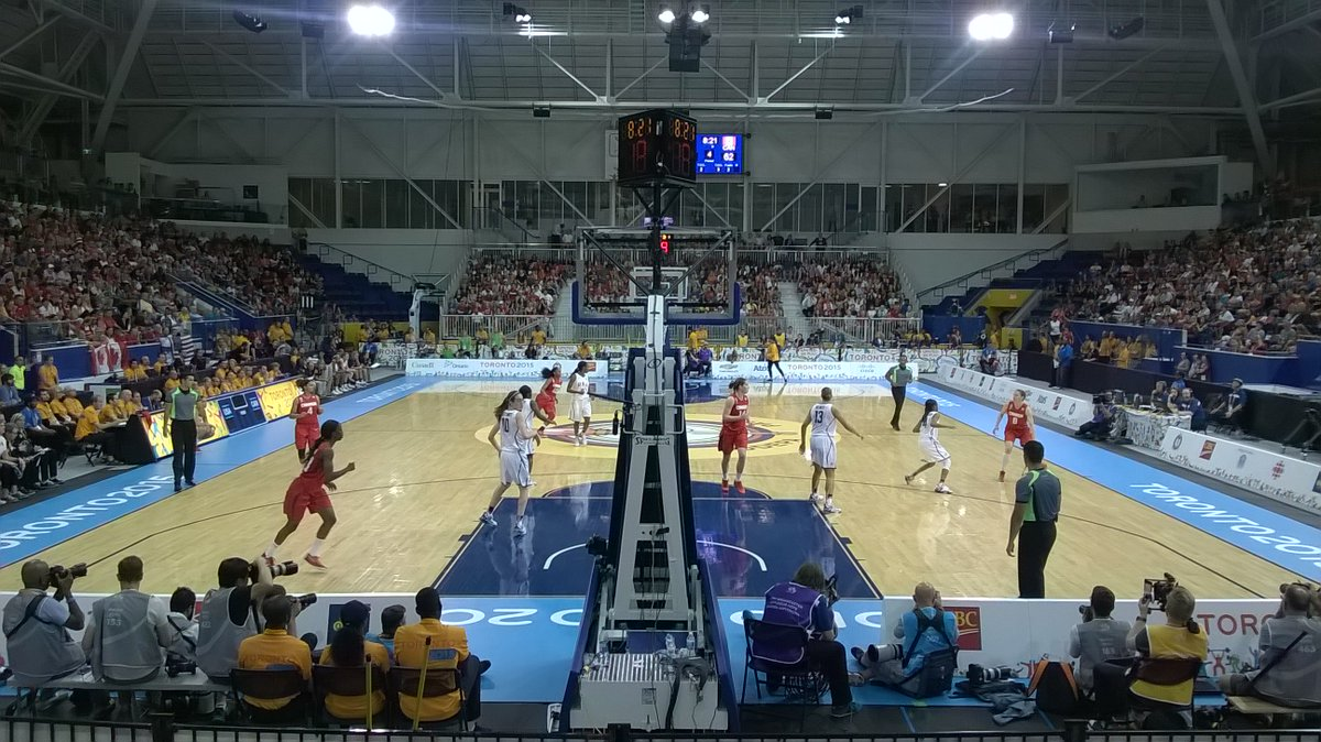 The basketball venue of the 2015 Pan American Games in Toronto, Canada.